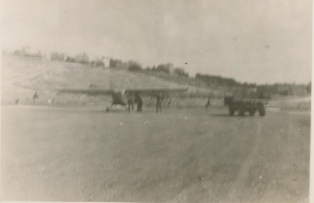 Auster aircraft in the Valley of the Cross